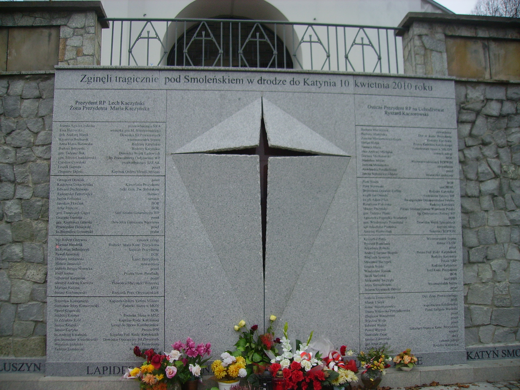 Plaque on the St. Roch church in Białystok, commemorating Smoleńsk crash victims.